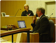 Court Reporter tests his martel mask , not a real stenomask